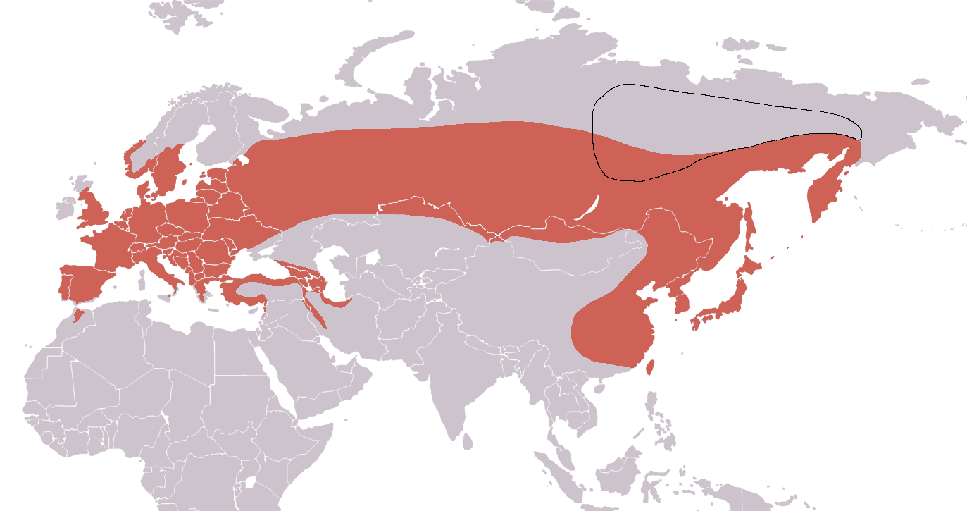 Distribution map of Sitta europaea, with (black line) Sitta arctica Sources: Harrap, S., & Quinn, D. (1996). Tits, Nuthatches & Treecreepers. Helm. Snow, D. W., & Perrins, C. M. (1998). The Birds of the Western Palearctic, concise ed. Oxford. Red'kin, Y., & Konovalova, M. (2006). Systematic notes on Asian birds. 63. The eastern Asiatic races of Sitta europaea Linnaeus, 1758. Zool. Med. Leiden 80: 241-261.